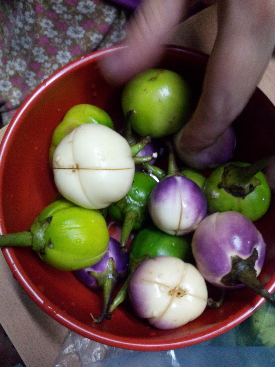 Fruits of Bitter Tomato (Solanum aethiopicum) ready for cooking in North-East India.